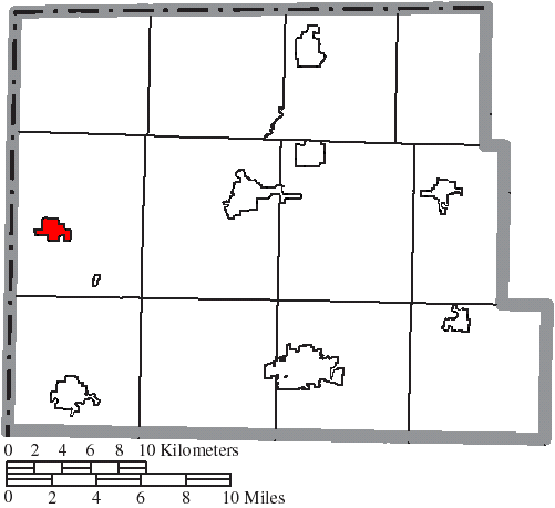 Map of the municipal and township boundaries of Williams County, Ohio, United States, as of the 2000 census, with the location of the village of Edon highlighted. Township borders are shown only in unincorporated areas in order to differentiate incorporated and unincorporated areas more clearly.